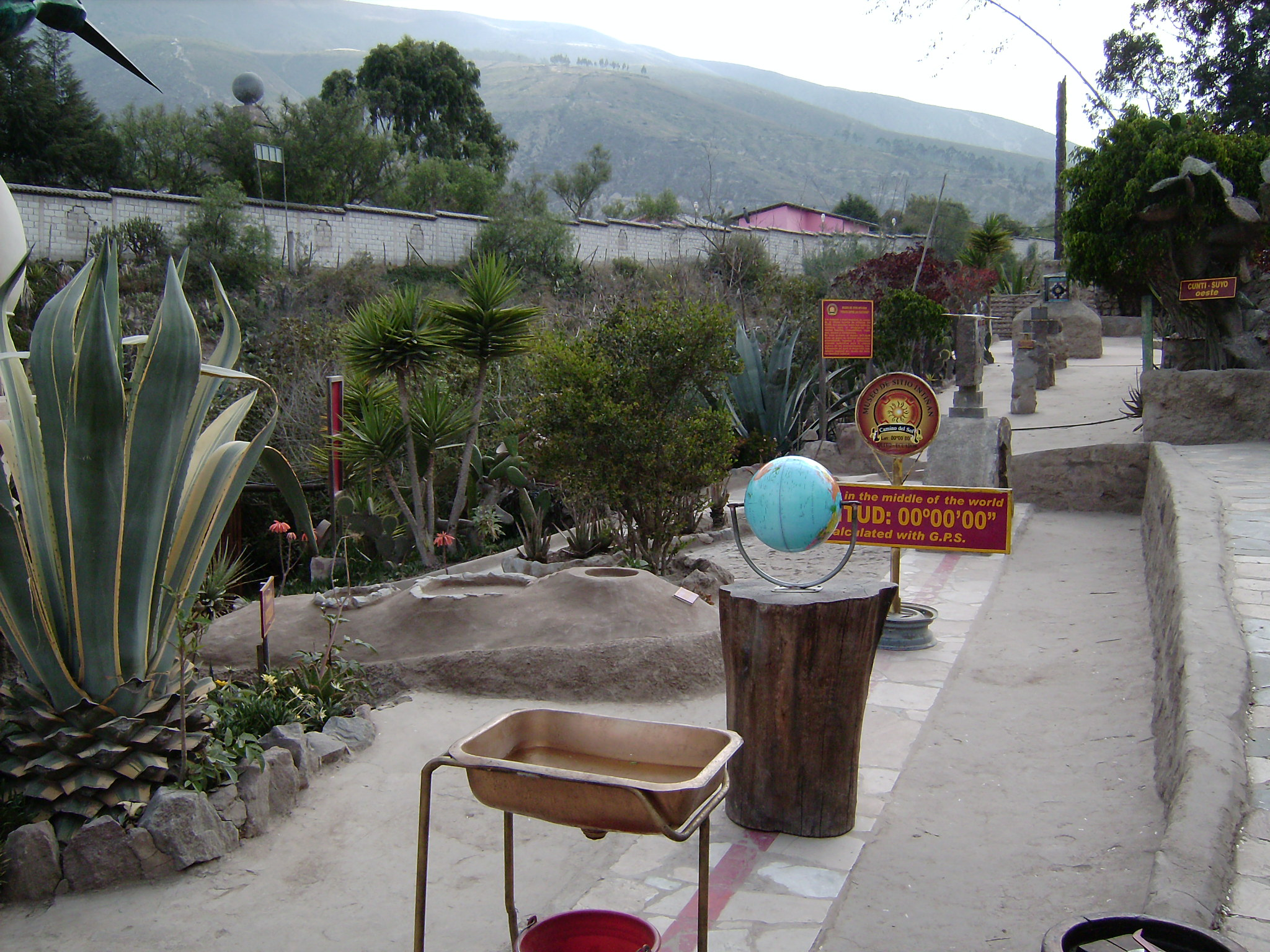 Monuments and signs along the line of the GPS-calculated Equator at Museo de Sitio Intiñan, Mitad del Mundo, Ecuador. In the front there is a device for demonstrating water circling in different directions in different hemispheres.